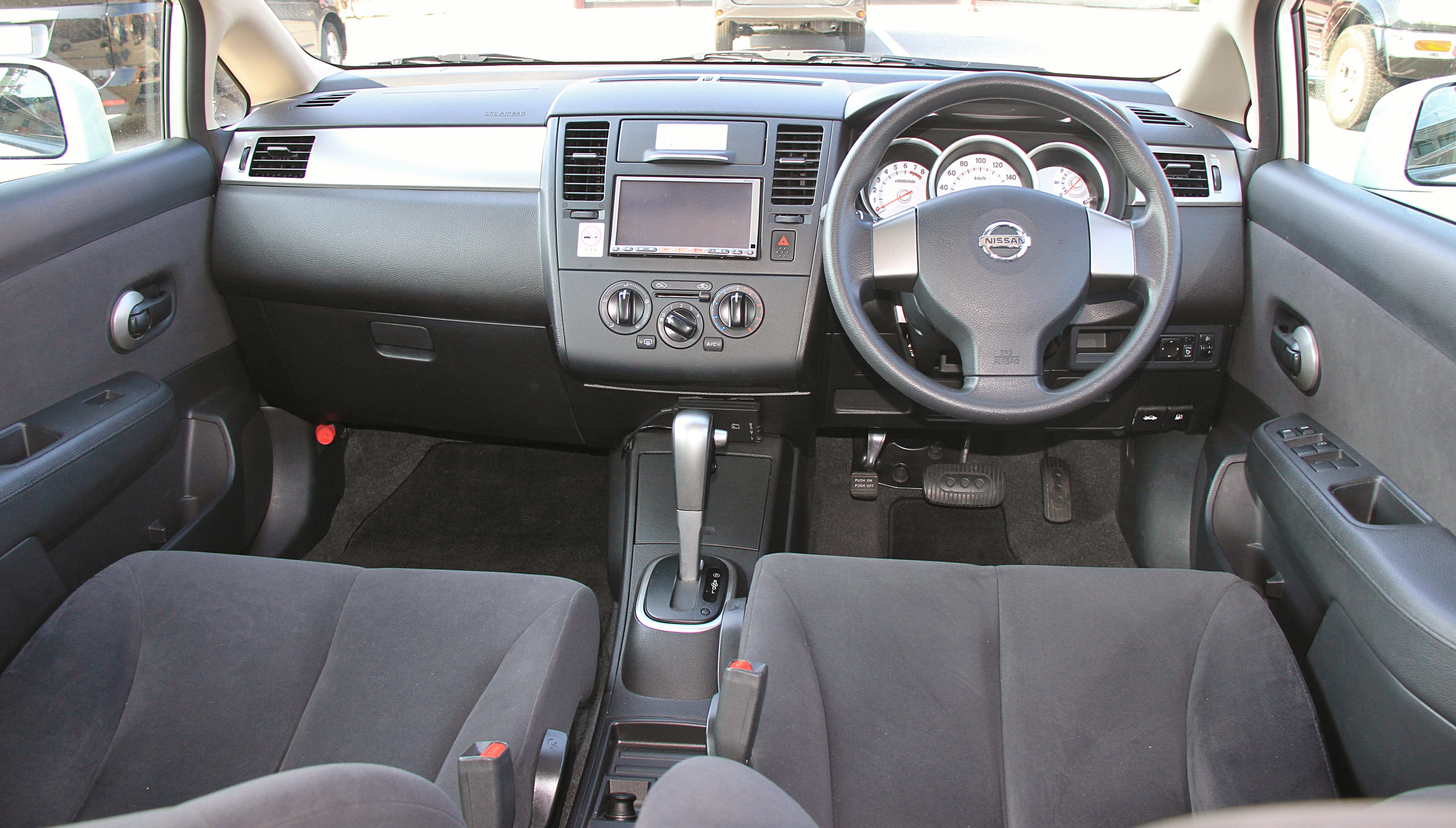 2010 NISSAN TIIDA 15S (Model of 2010-08-06―2012)